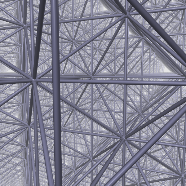 Disphenoid tetrahedral honeycomb